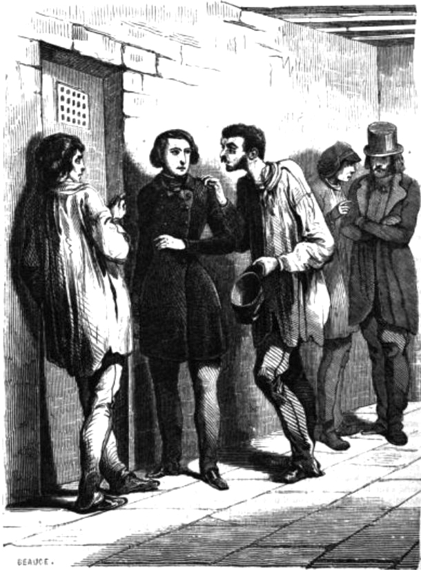 Germain in jail.